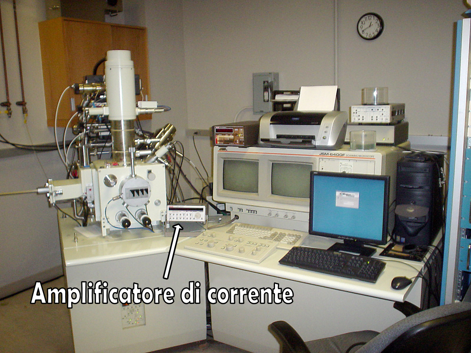 Photograph of a SEM set up to perform EBIC with Italian caption